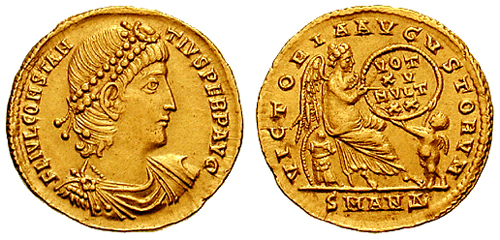 Constantius II 337-361. AV Solidus (4.51 gm). Struck 337-347. Antioch mint. FL IVL CONSTANTIVS PERP AVG, Pearl-diademed, draped and cuirassed bust right VICTORIA AVGUSTORVM, Victoria seated right on cuirass, inscribing VOT/XV/MVLT/XX in four lines on shield resting on knee and supported by a small genius; SMANΔ. RIC VIII 25; Depeyrot 5/3. Coin from CNG coins, through Wildwinds.